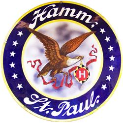 Hamm's brewery logo